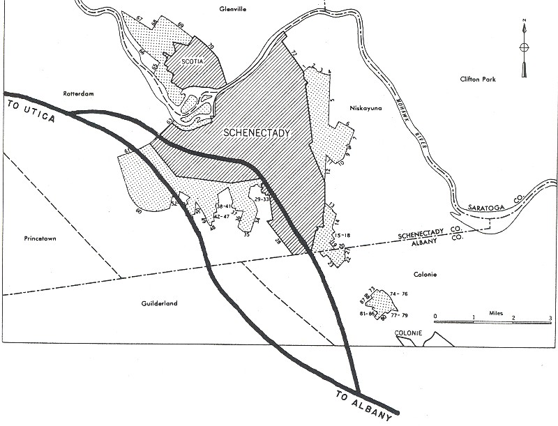 Interstates in today's terms I-90 I-890